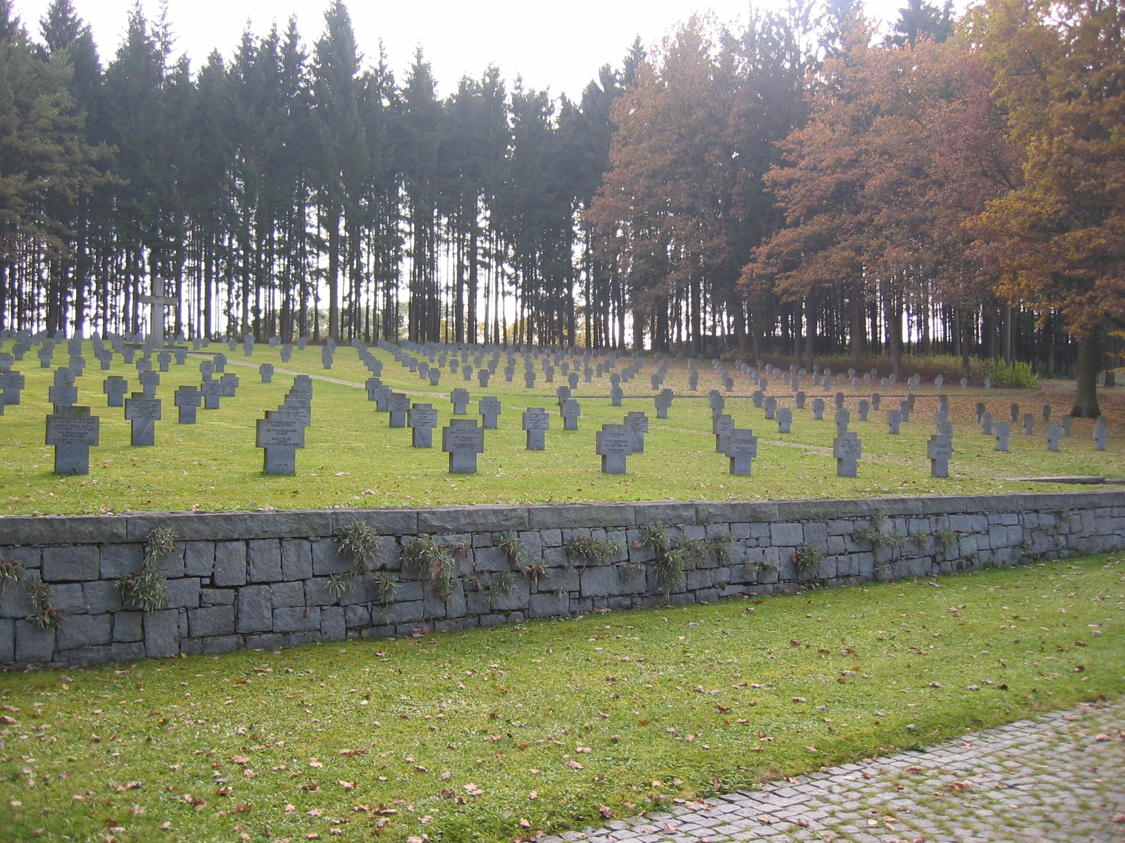 Military Cemetery Jaunitzbachtal Freistadt